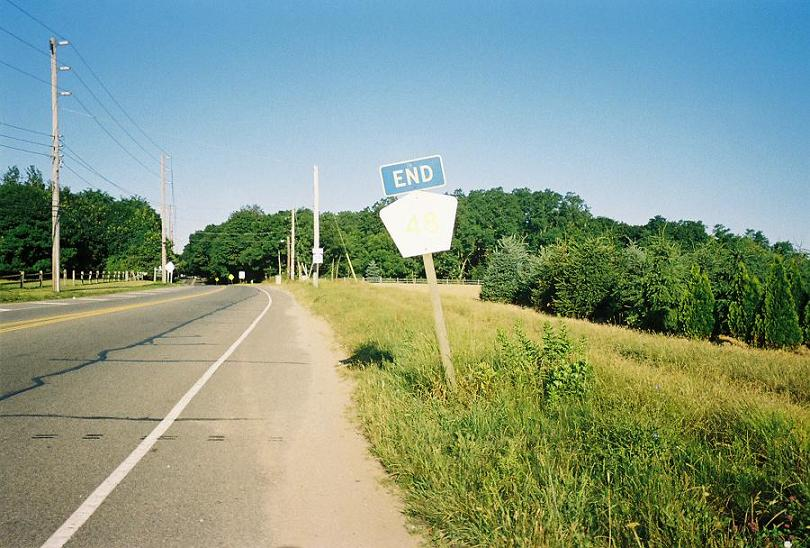 The western terminus of Suffolk County Road 48 at Sound Avenue in Mattituck, New York. This major county road was intended to connect to and eventually become part of the Long Island Expressway. You'll note that while SCR 48 ends at Sound Avenue, the overlapping New York State Truck Route 25 continues westbound towards Aldrich Avenue, and eventually to New York State Route 25 in Laurel, New York